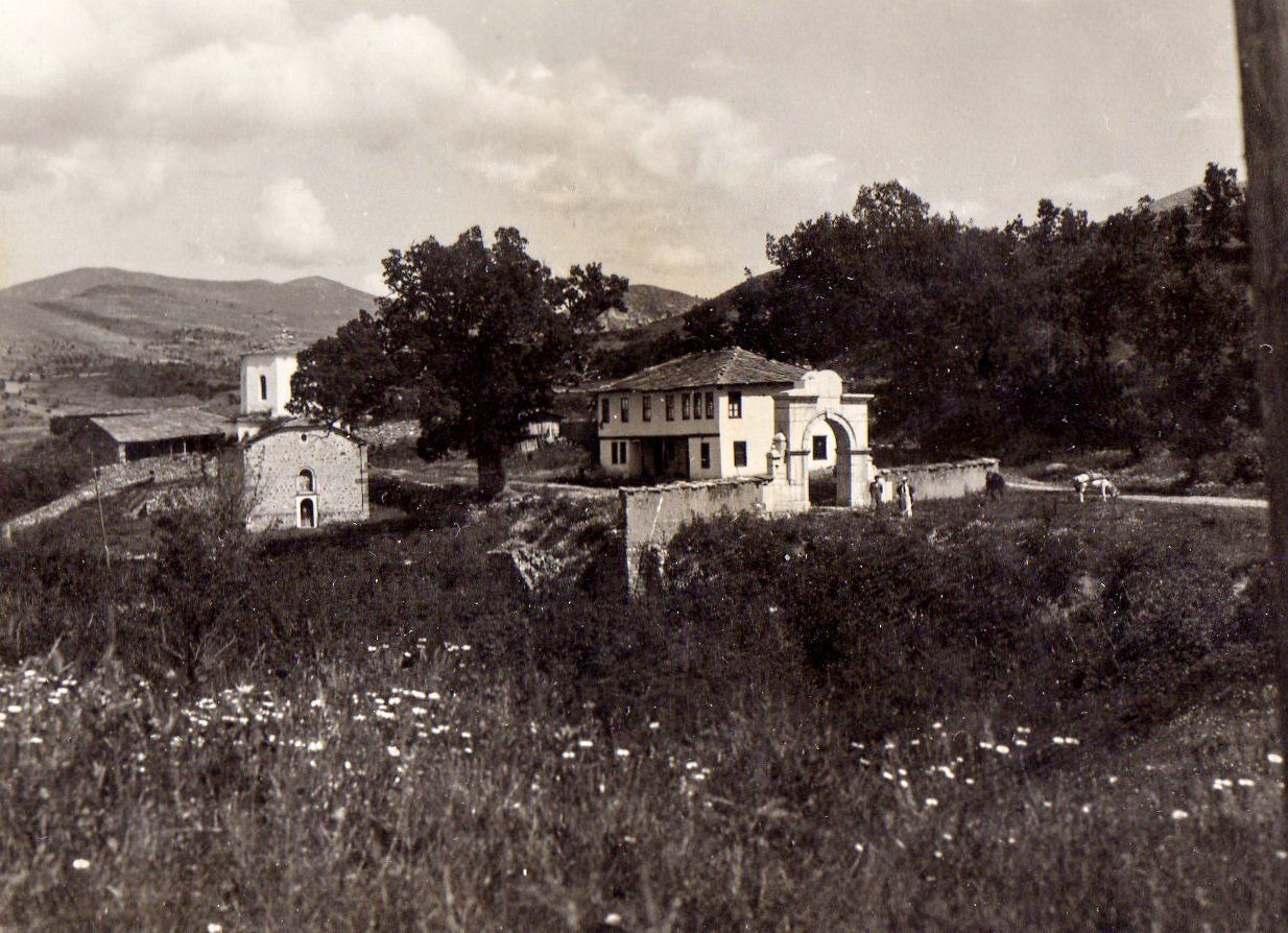 Melnica Monastery, Macedonia